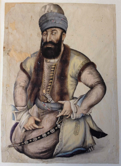 Karim Khan Zand, the ruler of Iran after the Nadir Afshar reign